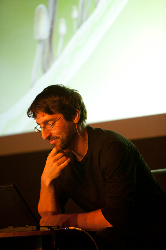 Jakub Dvorský at Game City.